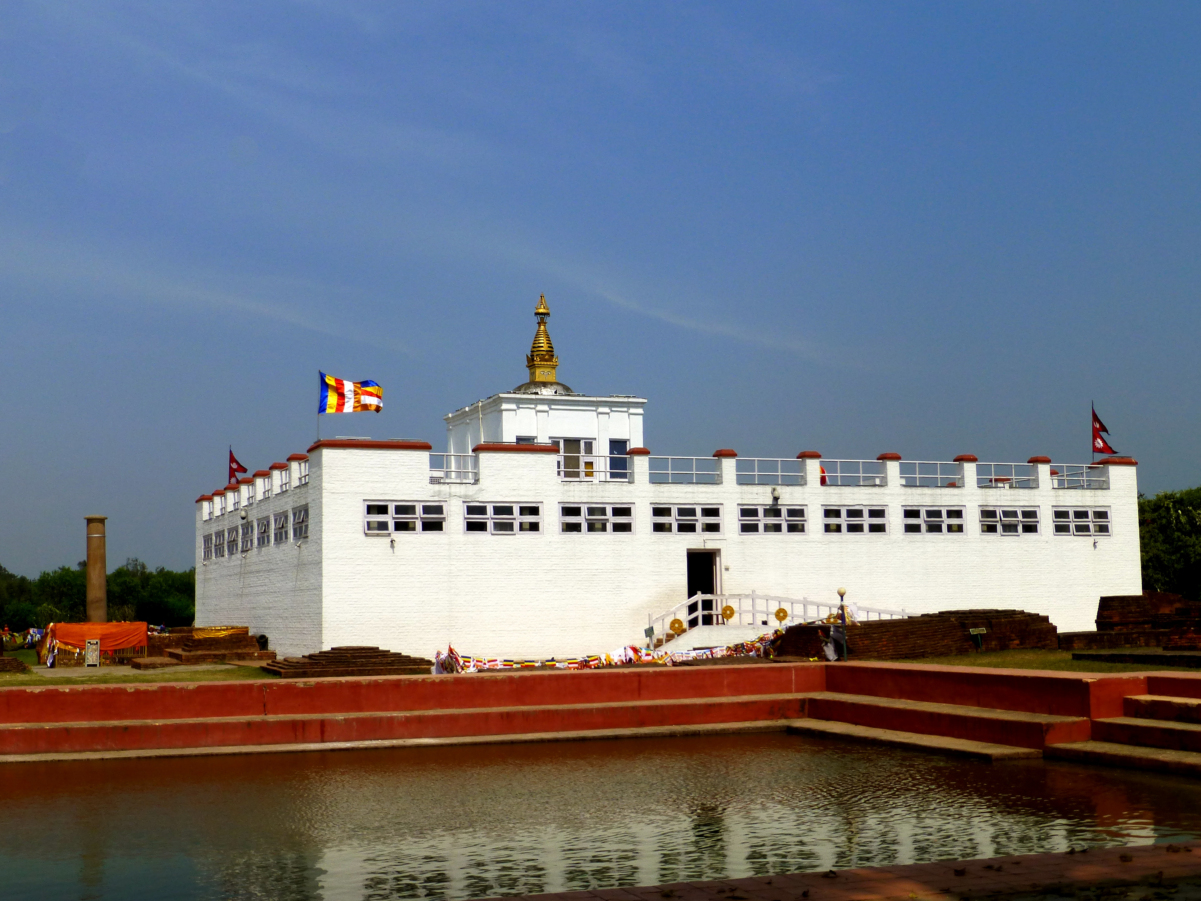 02 Mayadevi Temple from South, Lumbini. Photograph from Lumbini in Nepal taken by Anandajoti.